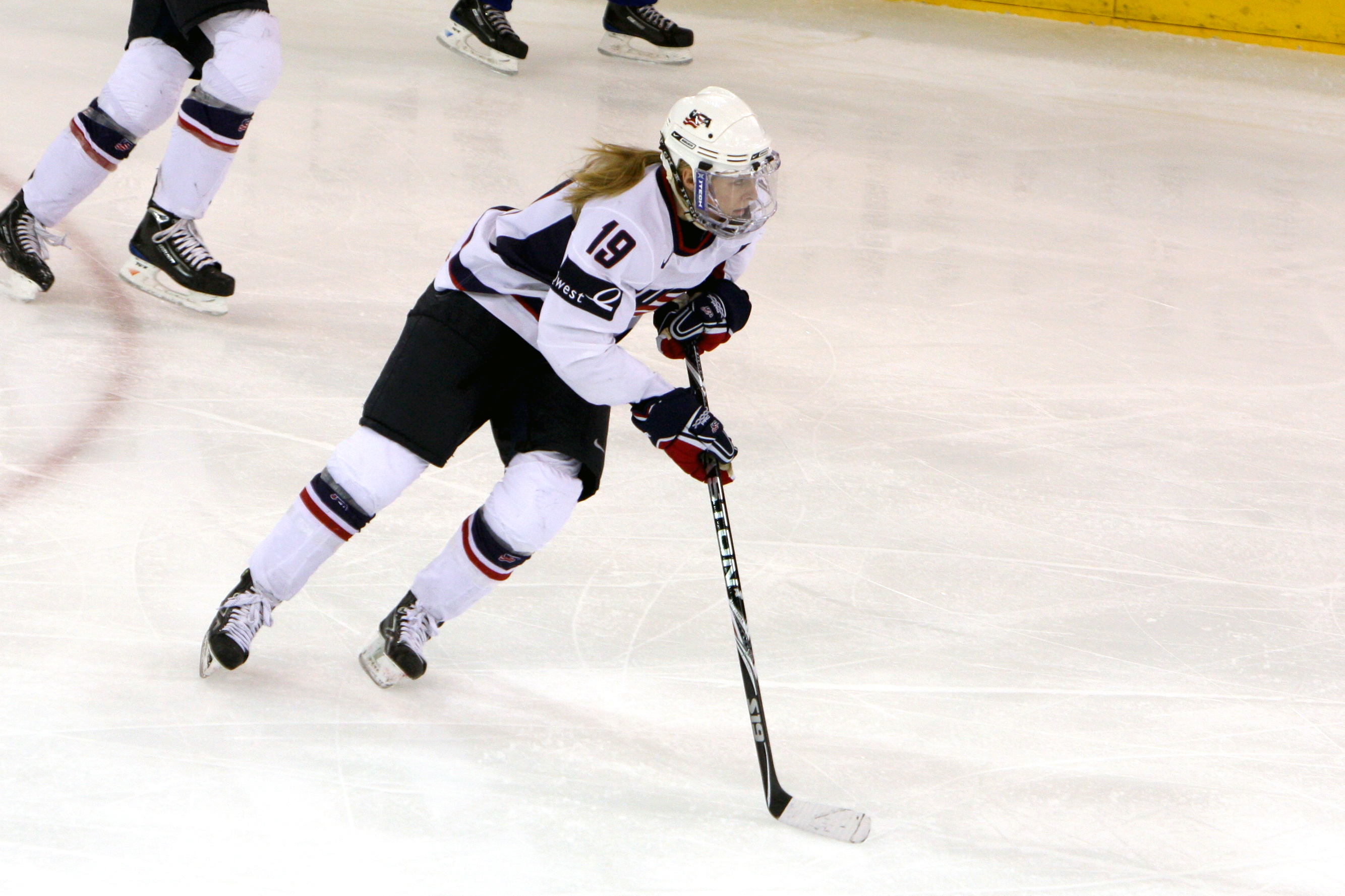 United States forward Gigi Marvin in a game against the ECAC All-Stars on January 3, 2010.